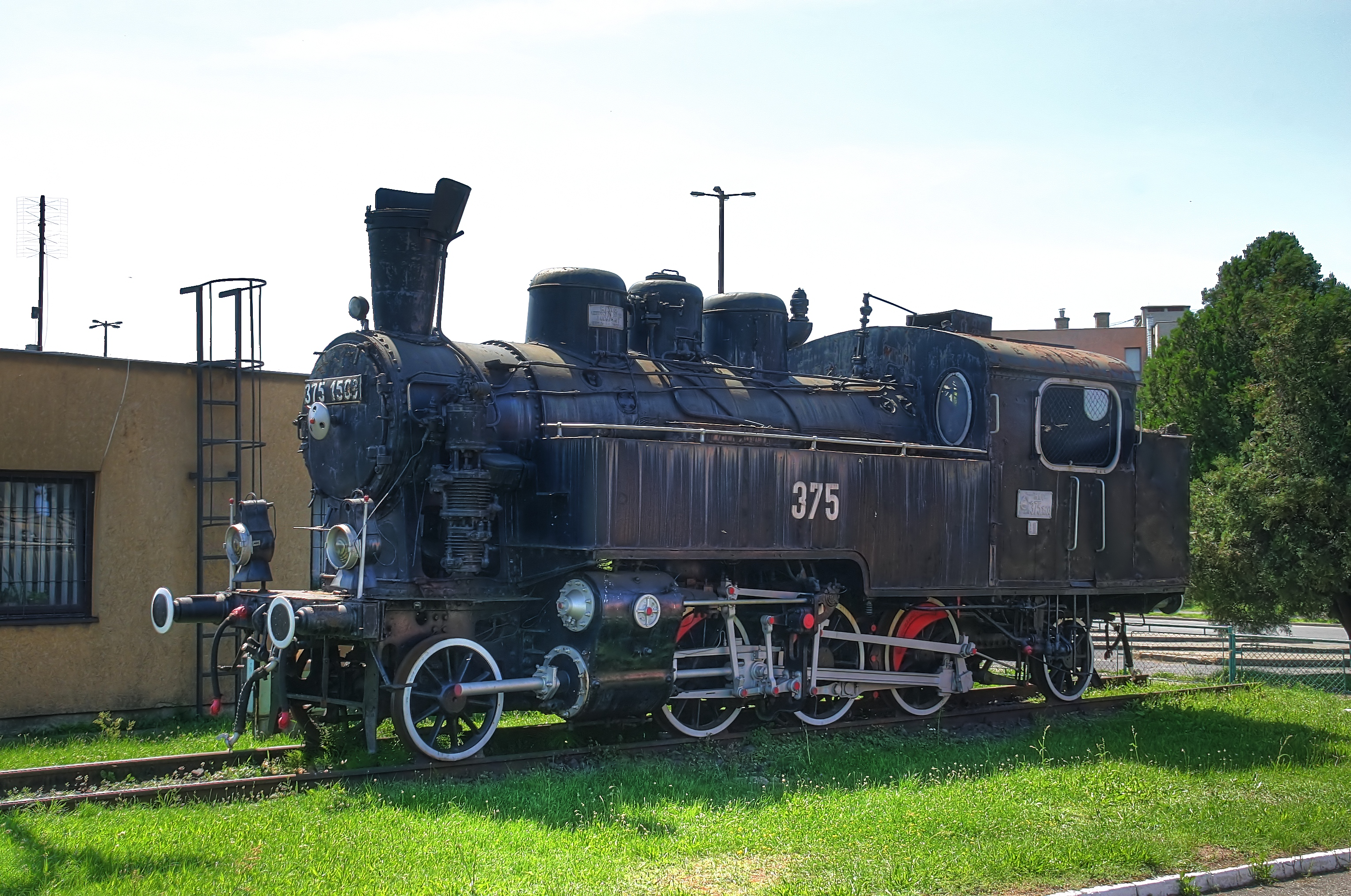 MÁV 375.1503 in railway station of Záhony, Hungary